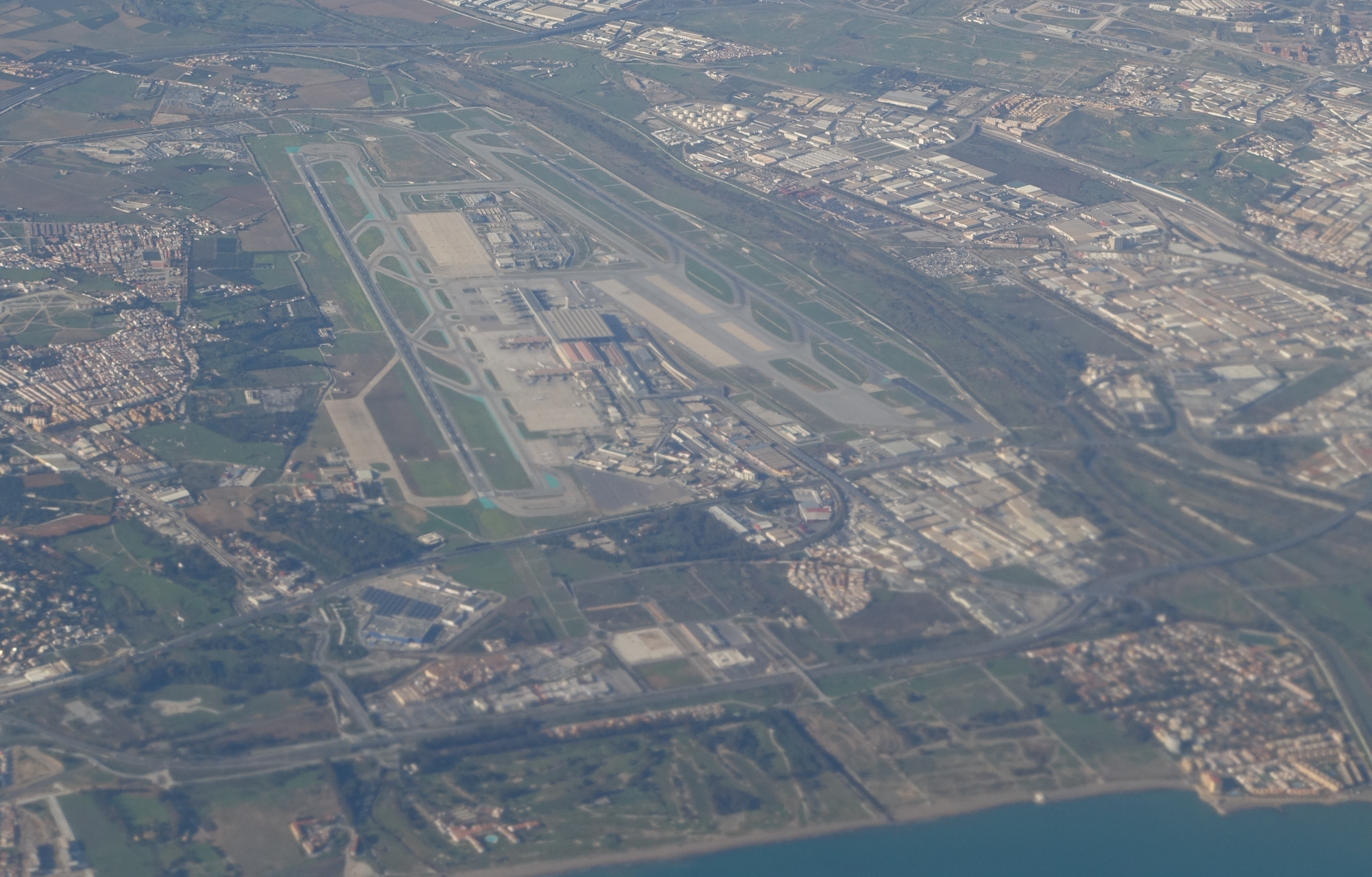 Málaga airport as seen from a departing passenger plane